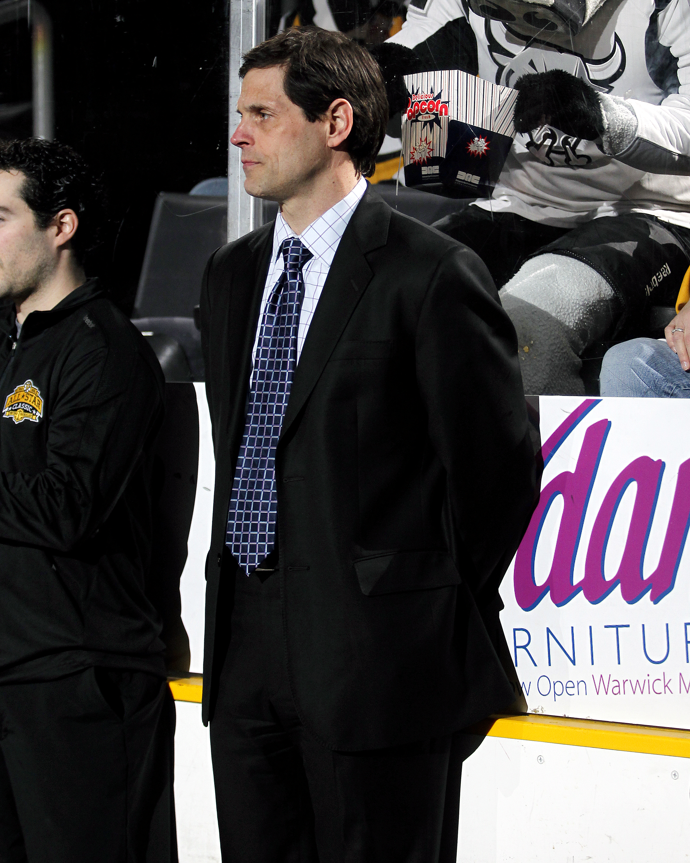 Sweeney American Hockey League (AHL). 2013 All-Star Skills Competition. Taken on January 27, 2013.